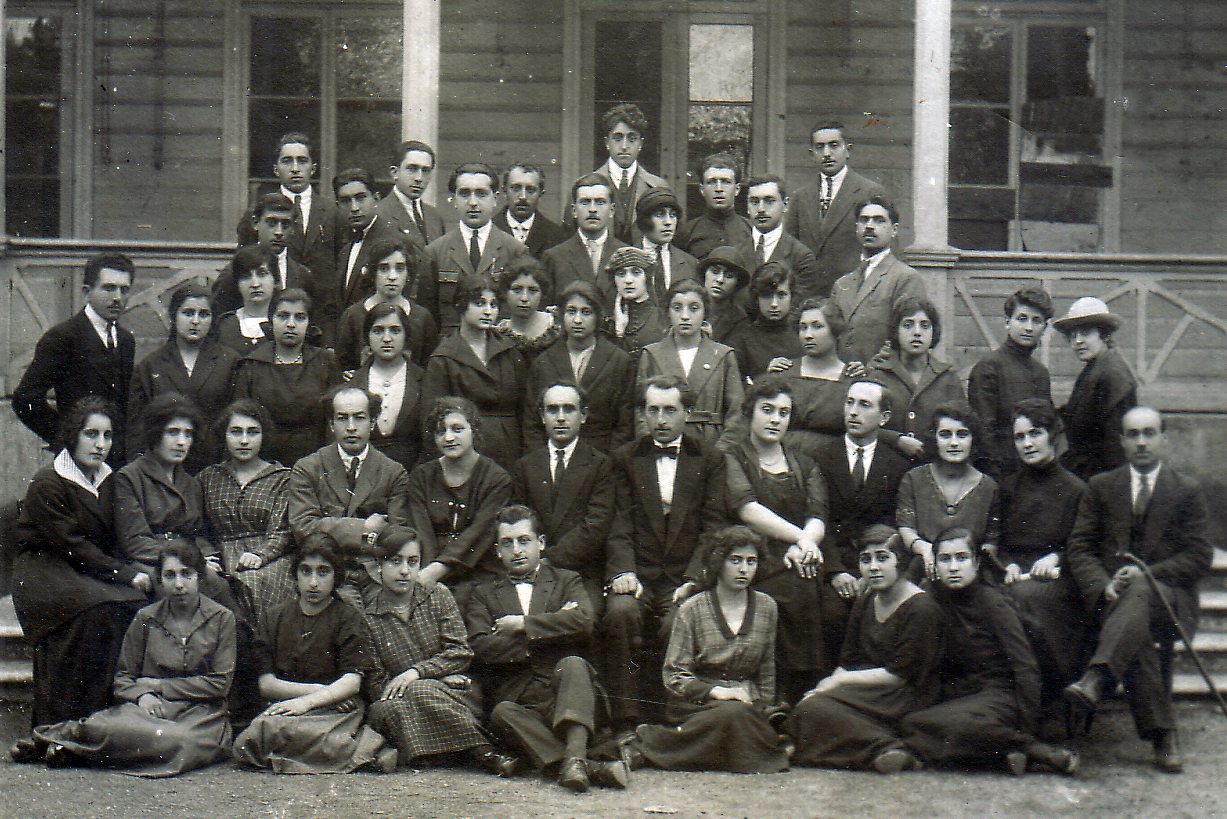 Music school establishing in Batumi, 1922